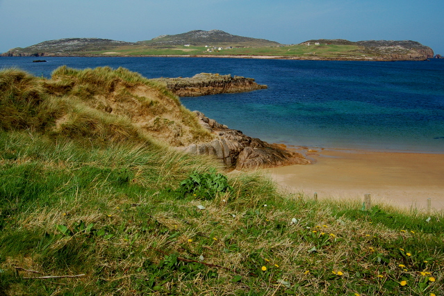 Owey Island from north end of Cruit Island Daniel O'Donnell's mother Julia grew up as a child on Owey Island where fishmermen and their families once lived. Owey Island was later abandoned, as were most of the island off the west coast of Ireland over time. Today, no one lives there except for some people who reside there without electricity and water during the summer months.